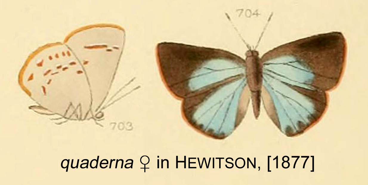 Thecla quaderna, ♀, from original description.